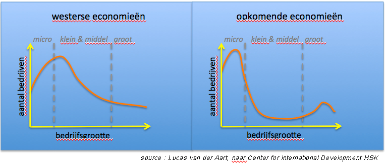 Description of missing middle in developing countries versus Western countries.